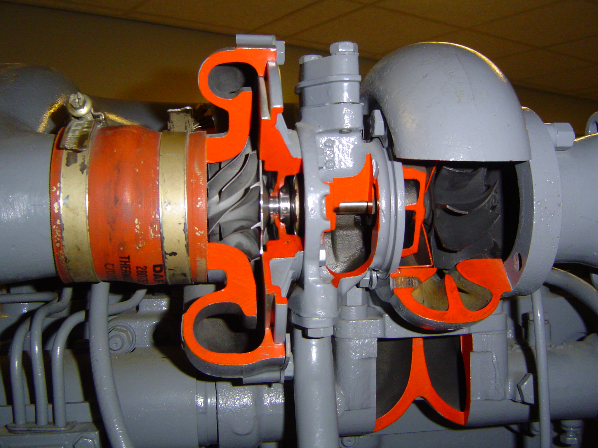 Sectioned turbo compressor from a truck. The blackened turbine on the right is driven by exhaust gases. The compressor wheel on the left pumps the incoming air to the inlet manifold.